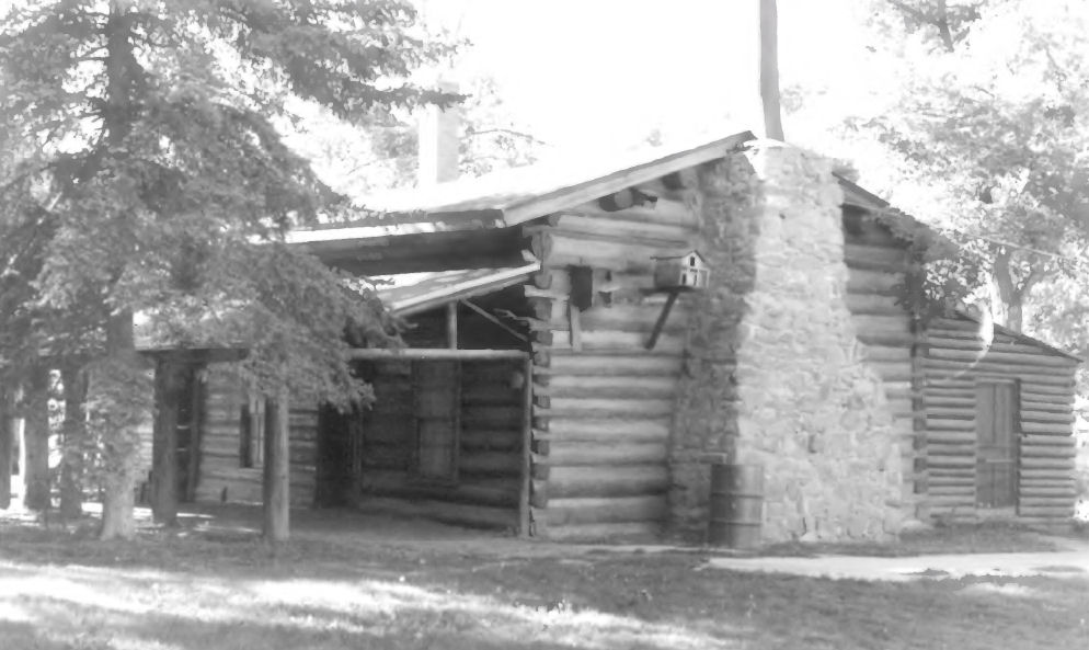 Original 1903 log cabin studio of artist Charles Marion Russell, located in Great Falls, Montana, in the United States. The log cabin studio is in its original location, and is currently part of the C. M. Russell Museum Complex.